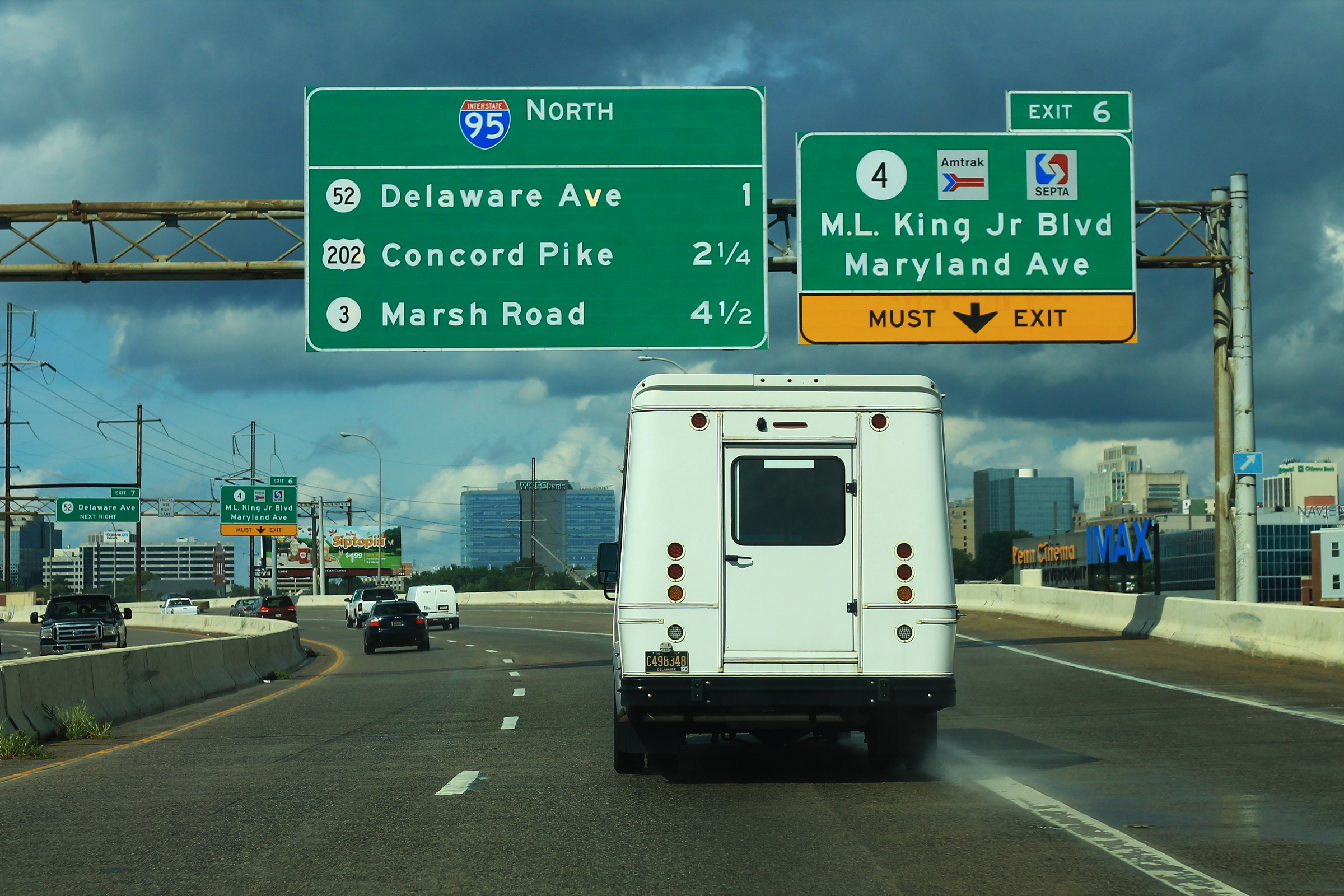 I-95 North - Exit 6 - DE4